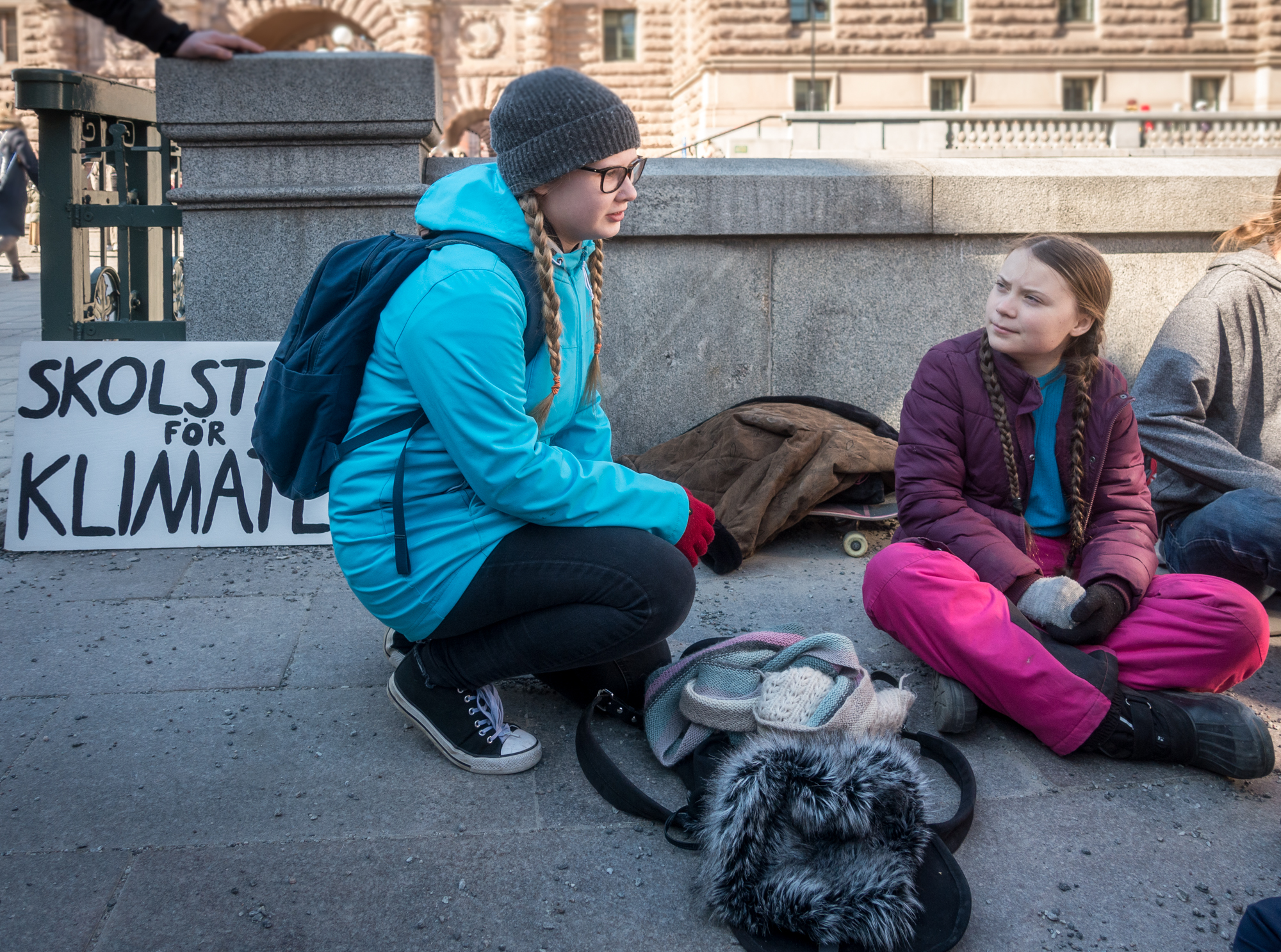 Greta Thunberg together with activists in the school strike for the climate outside the Swedish parliament on Friday, April 12, 2019.